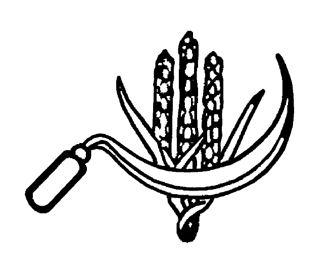 one of Symbols used in Indian Election